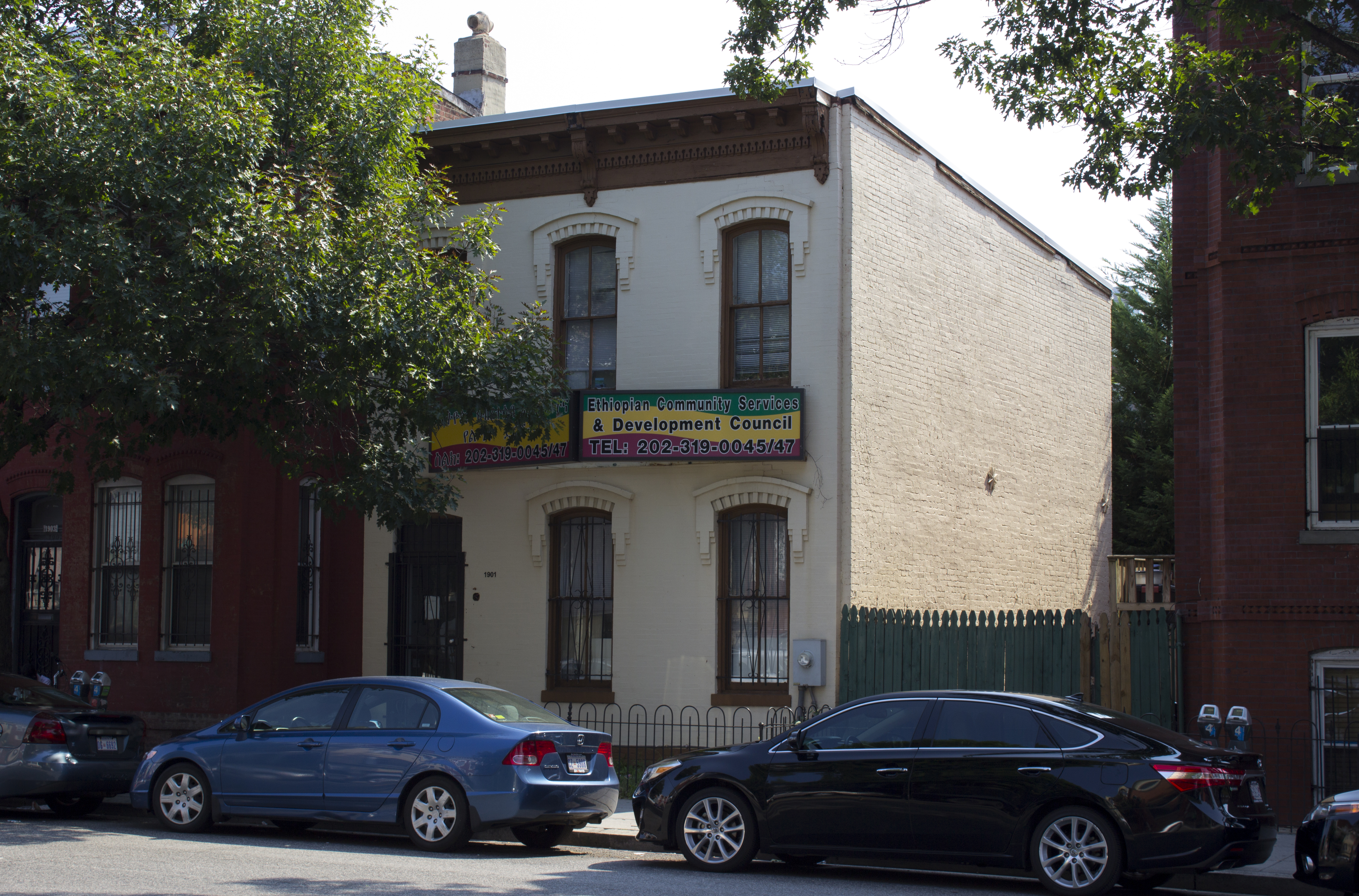 Ethiopian Community Services and Development Council - Ethiopians in Washington, D.C. አማርኛ: የኢትዮጵያ ኅብረተሰብ አገልግሎትና የልማት ድርጅት